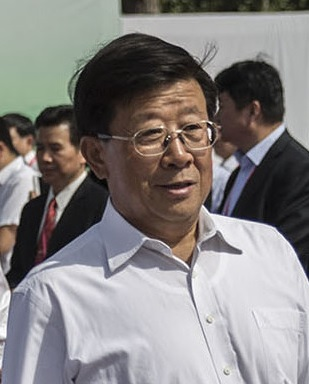 Hebei Party Secretary Zhao Kezhi attends the groundbreaking ceremony for the China-US Demonstration Farm on Saturday, Sept. 23, 2017, in Luanping County, Hebei, China. 中文（中国大陆）: 2017年9月23日中美示范农场项目启动仪式，时任中共河北省委书记、河北省人大常委会主任赵克志出席。